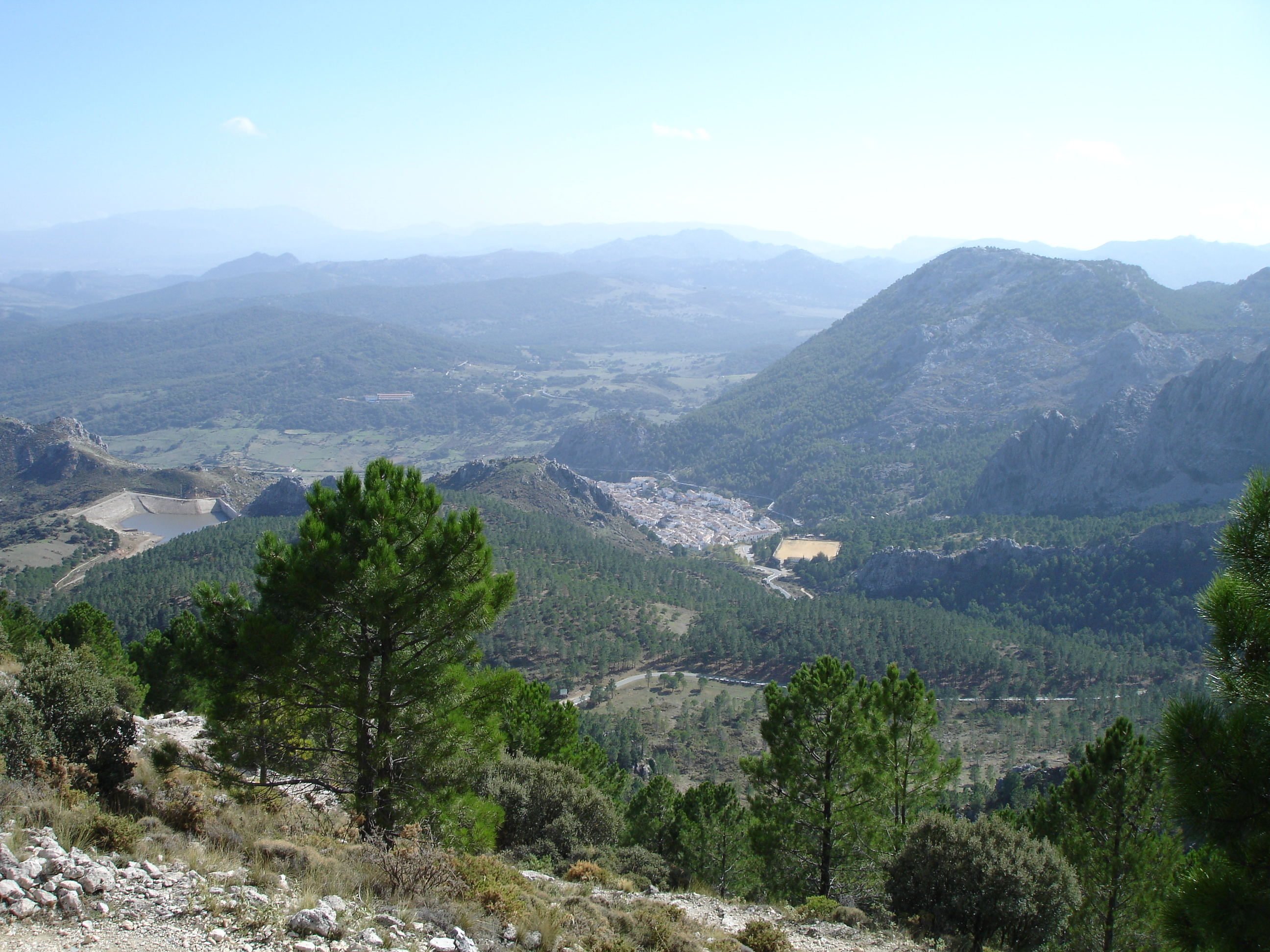 Grazalema, Grazalema Natural Park (Andalusia, Spain)